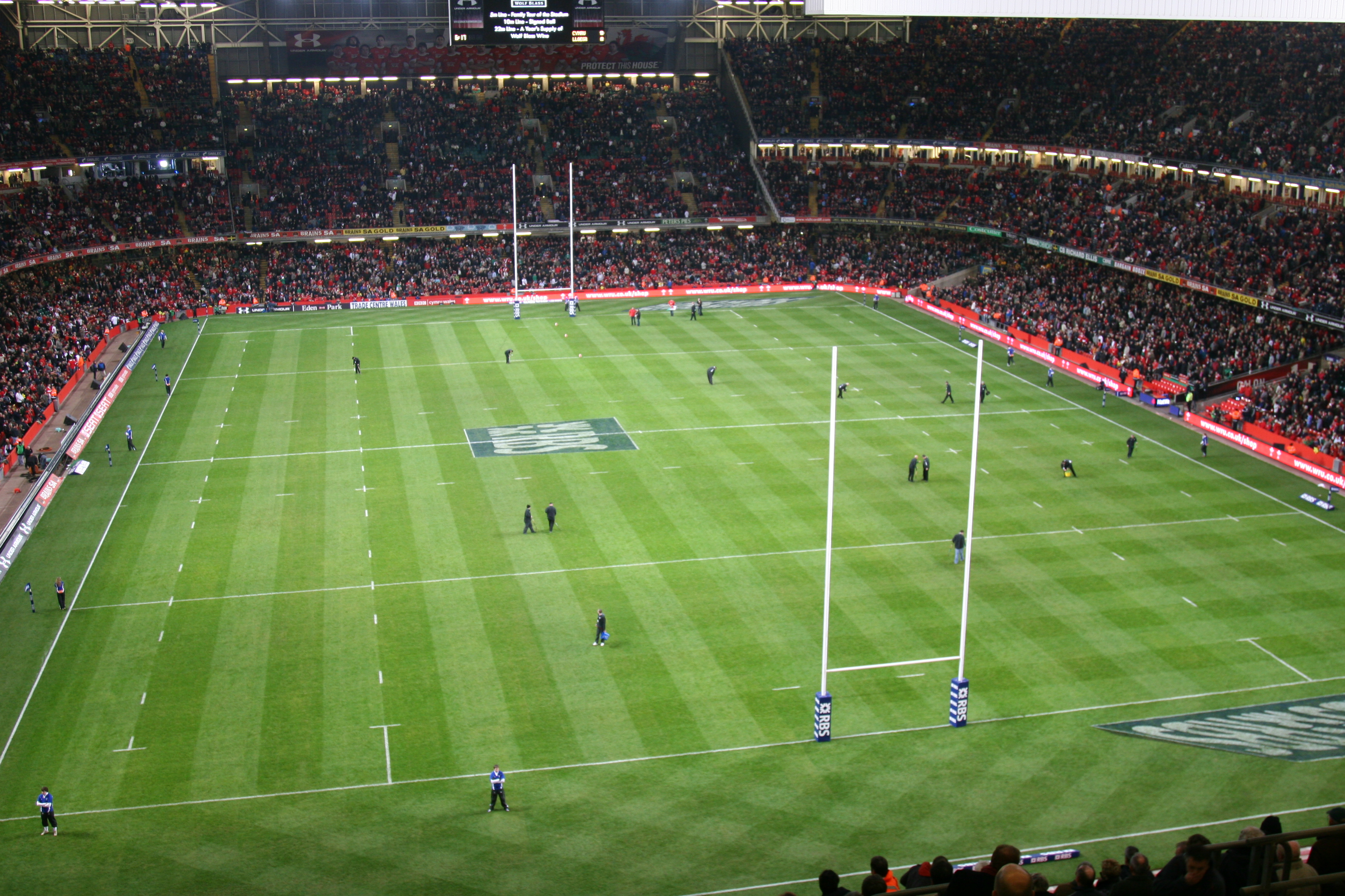 Wales Vs England (Six Nations Championship), Millennium Stadium looking north, Cardiff, Wales